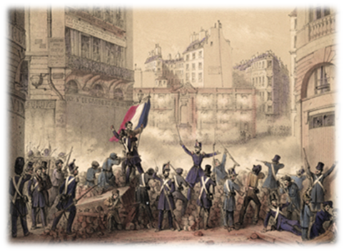 started-like the 1830s - in France and then spread throughout much of Europe. It is known as "spring of nations"